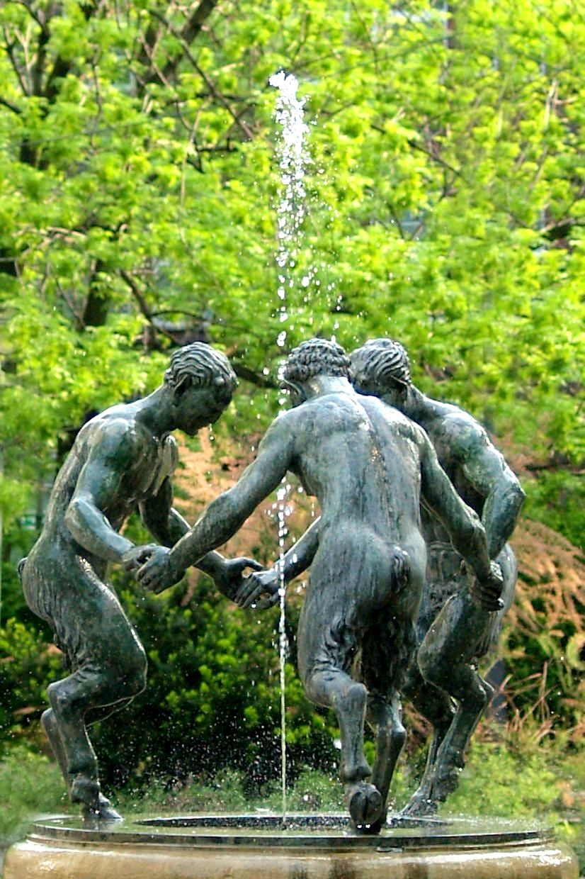 Three fauns fountain in Gliwice, Poland. Sculpted in 1928 by Hans Dammann